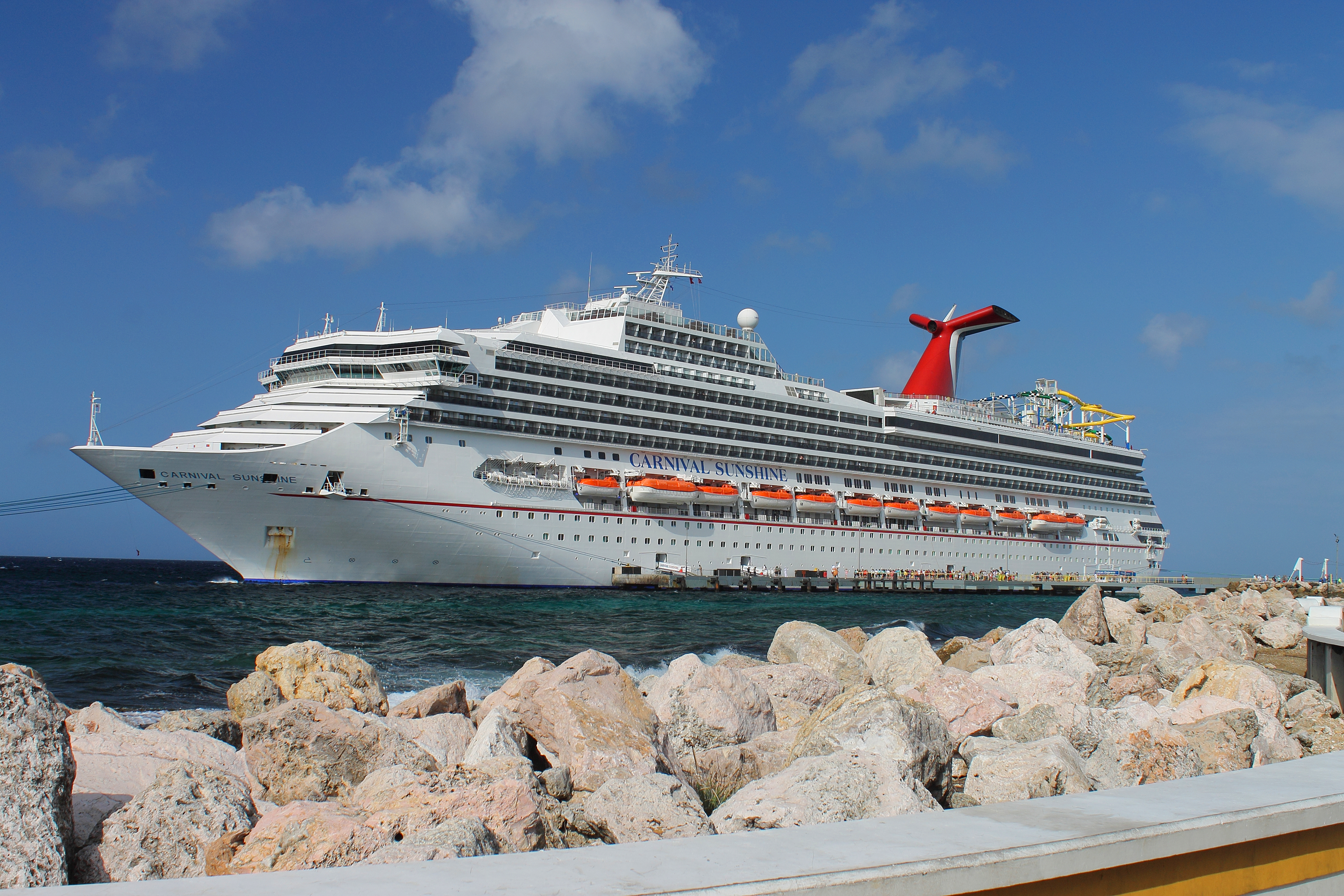 Carnival Sunshine moored in Curacao, 2014